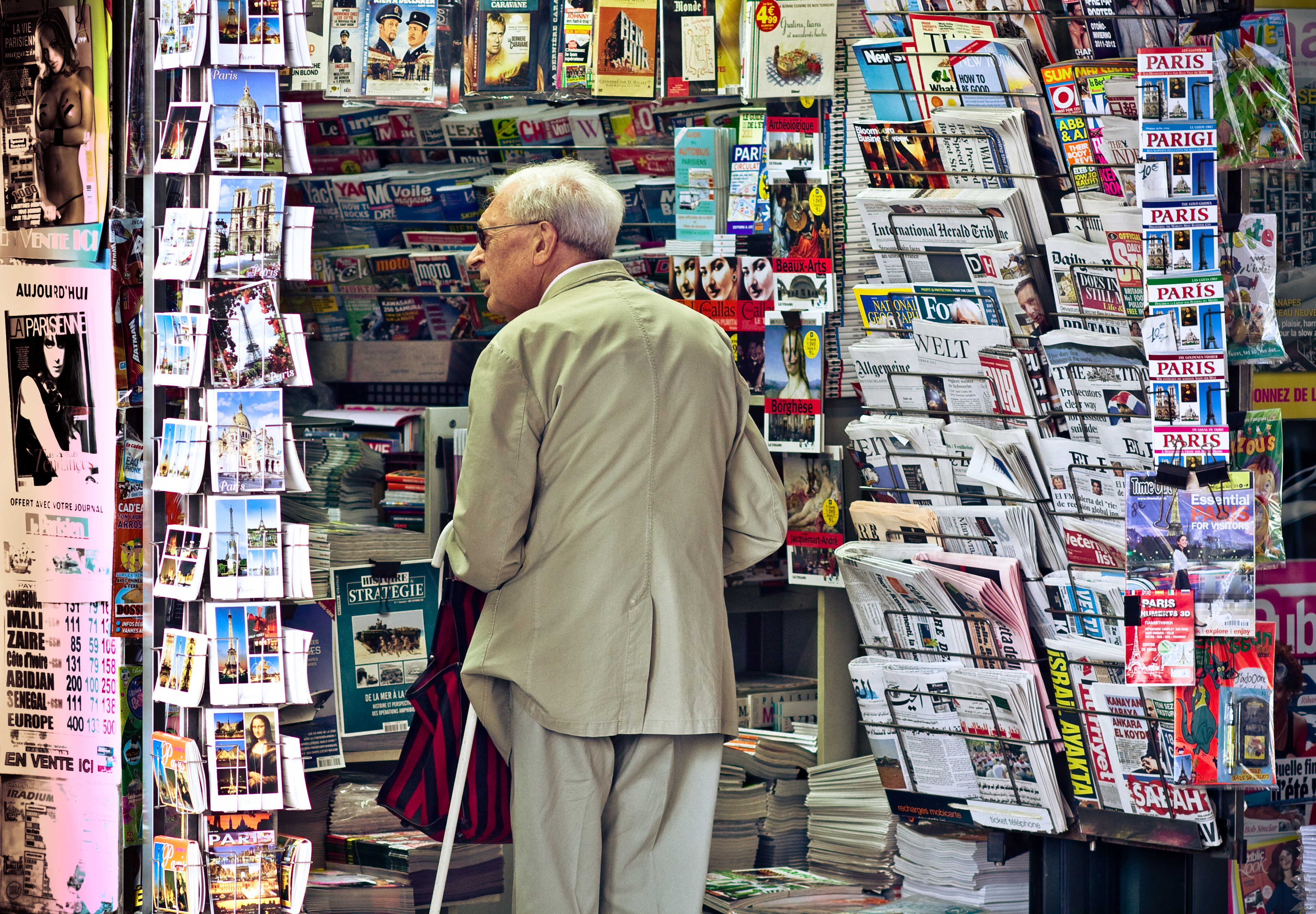 An old man in newsagent's shop, Paris.